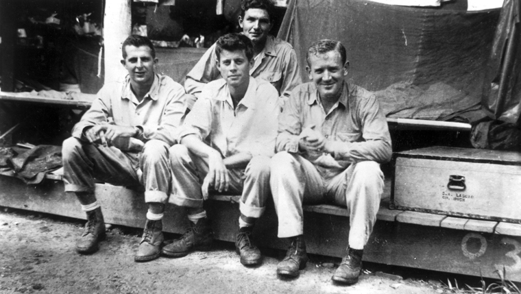 PC 96 Tulagi, Solomon Islands. PT Boat Officers (L-R) James ("Jim") Reed, John F. ("Jack") Kennedy, George ("Barney") Ross [rear], and Paul ("Red") Fay.